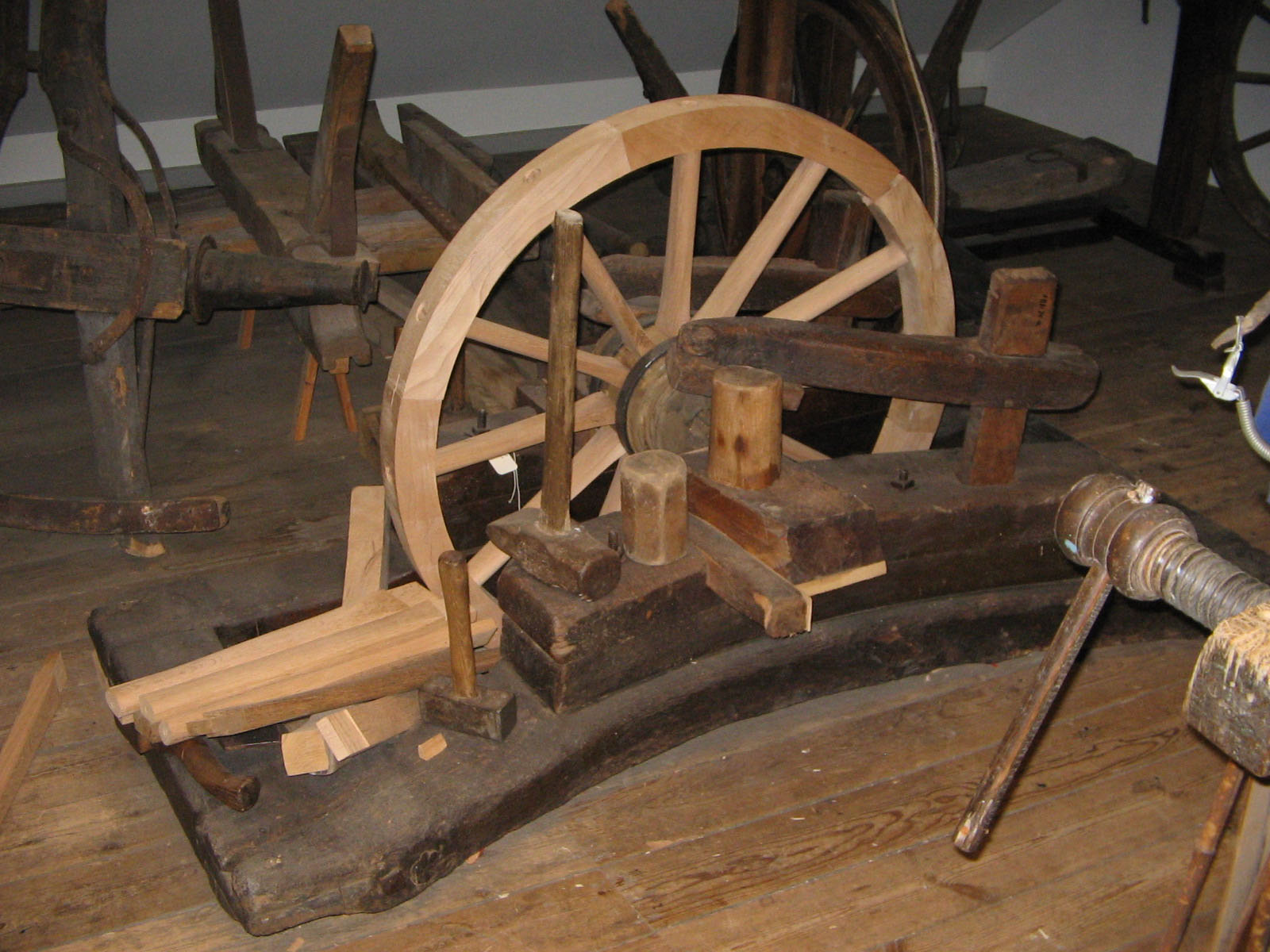 Radstok, Wheelwright's tool. Photo from "Kajsergaarden", Randers. This file was made by B. M. Askholm, Please credit this: B. Askholm foto, 2006 An email to B. Mathias at baskholm(--) would be appreciated too.